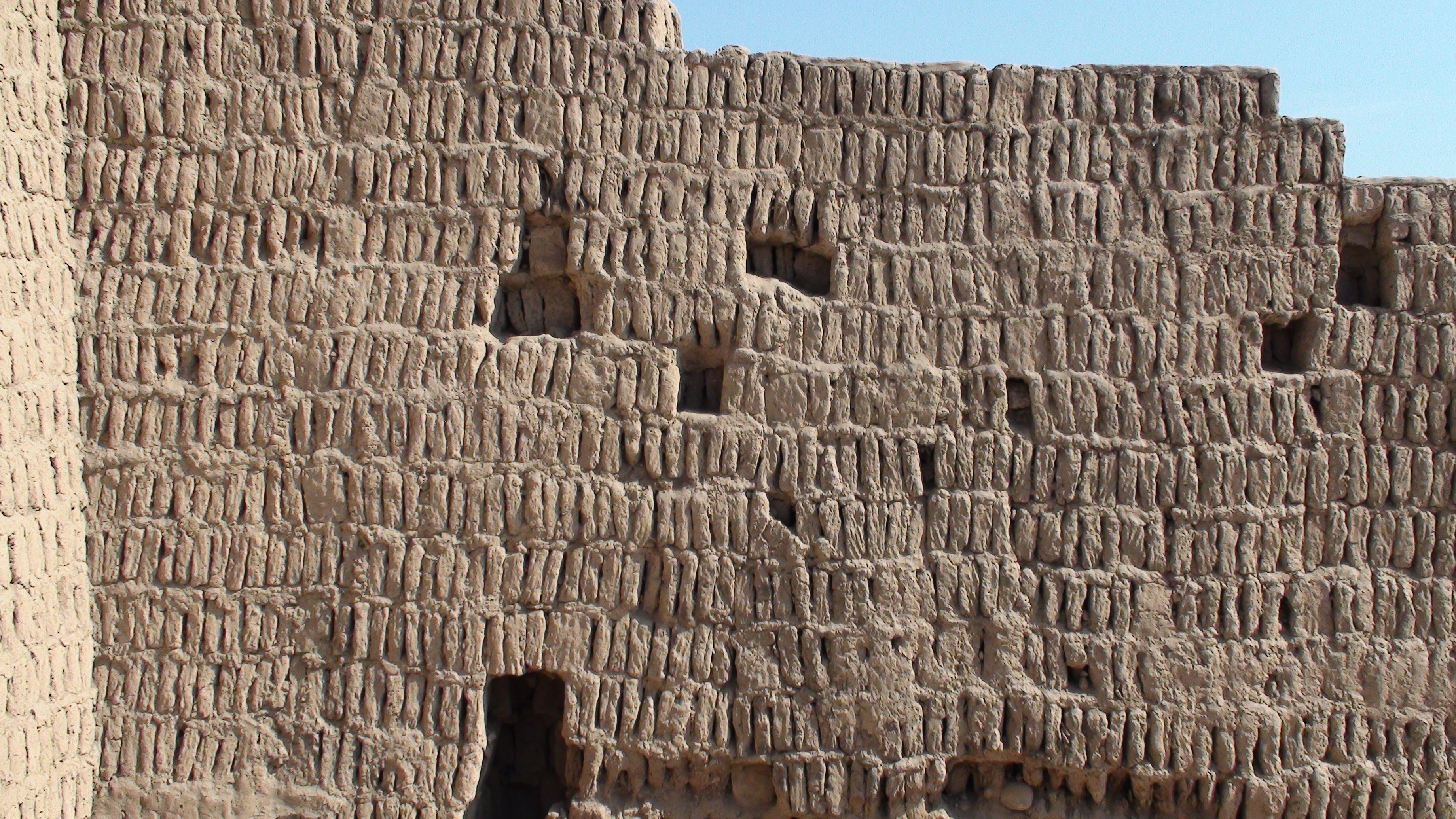 Pucllana Archaeological site (wall)